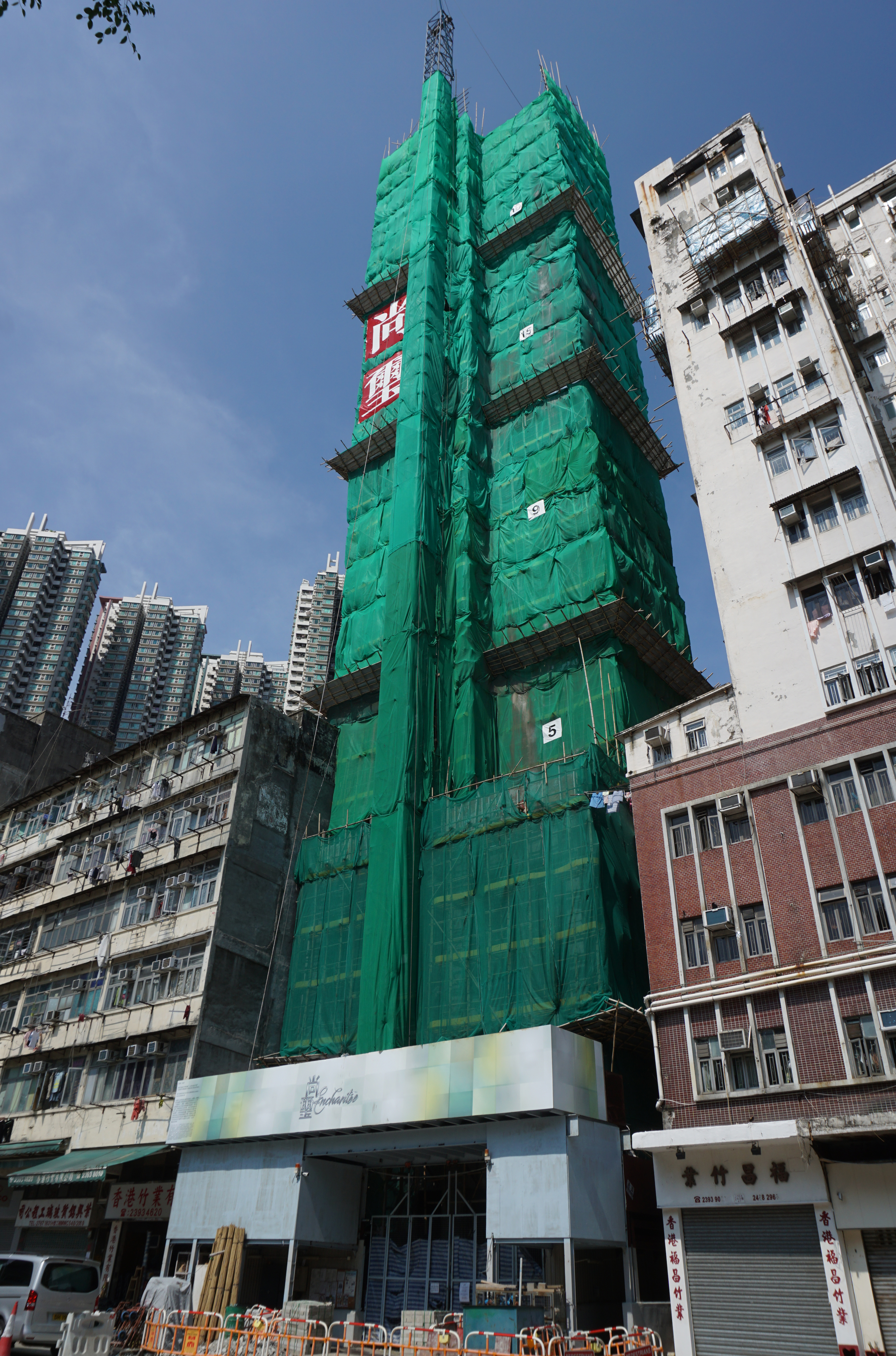 Enchantee in Sham Shui Po, Hong Kong.